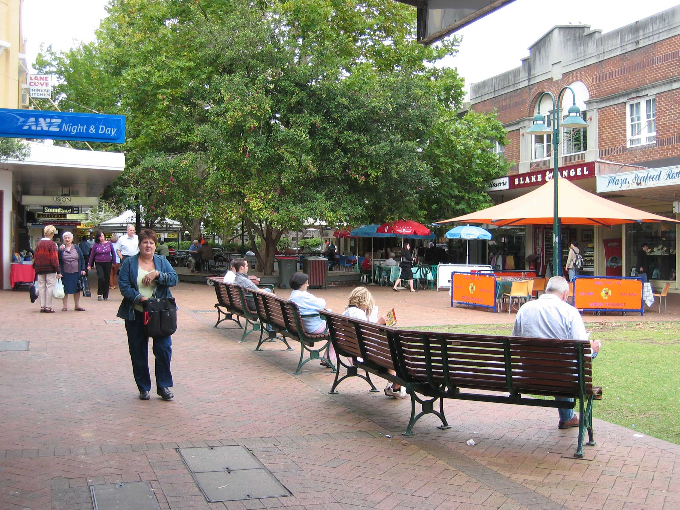 Lane Cove, New South Wales, Australia - Pedestrian mall.